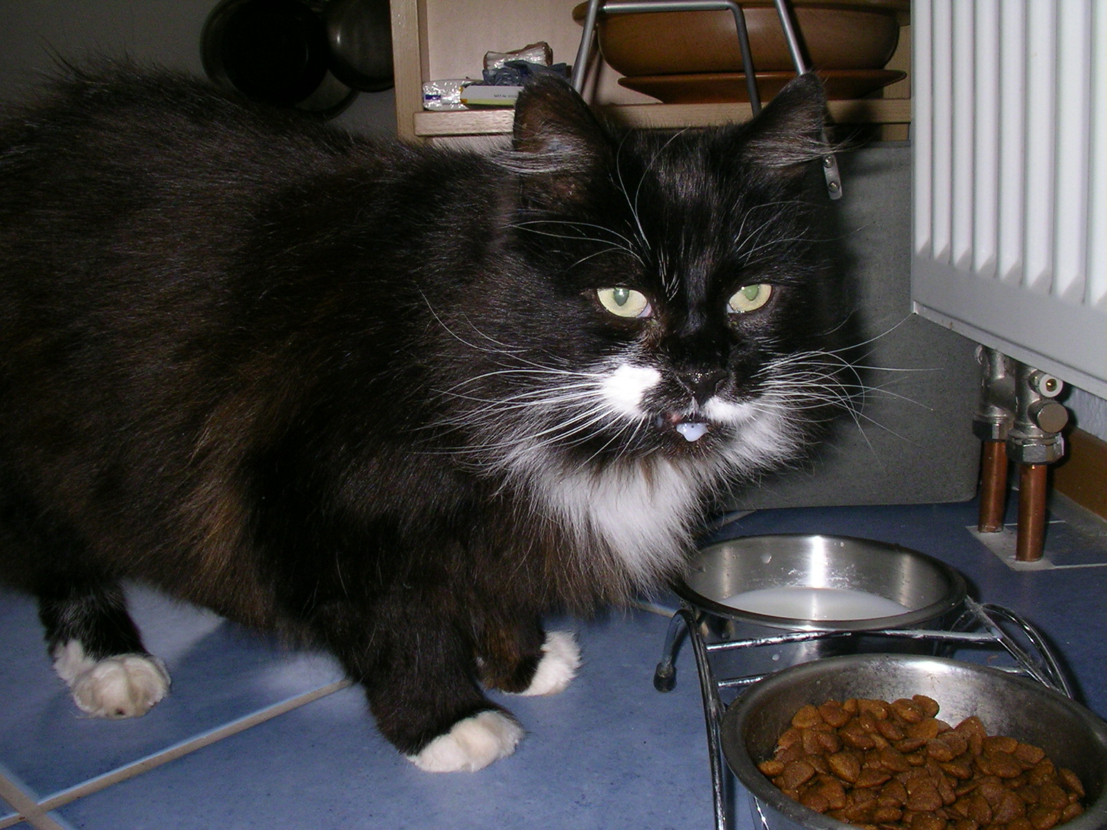 black cat drinking milk